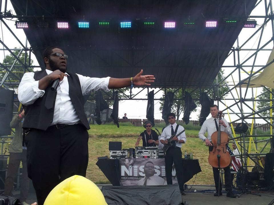 Nissim at Sas